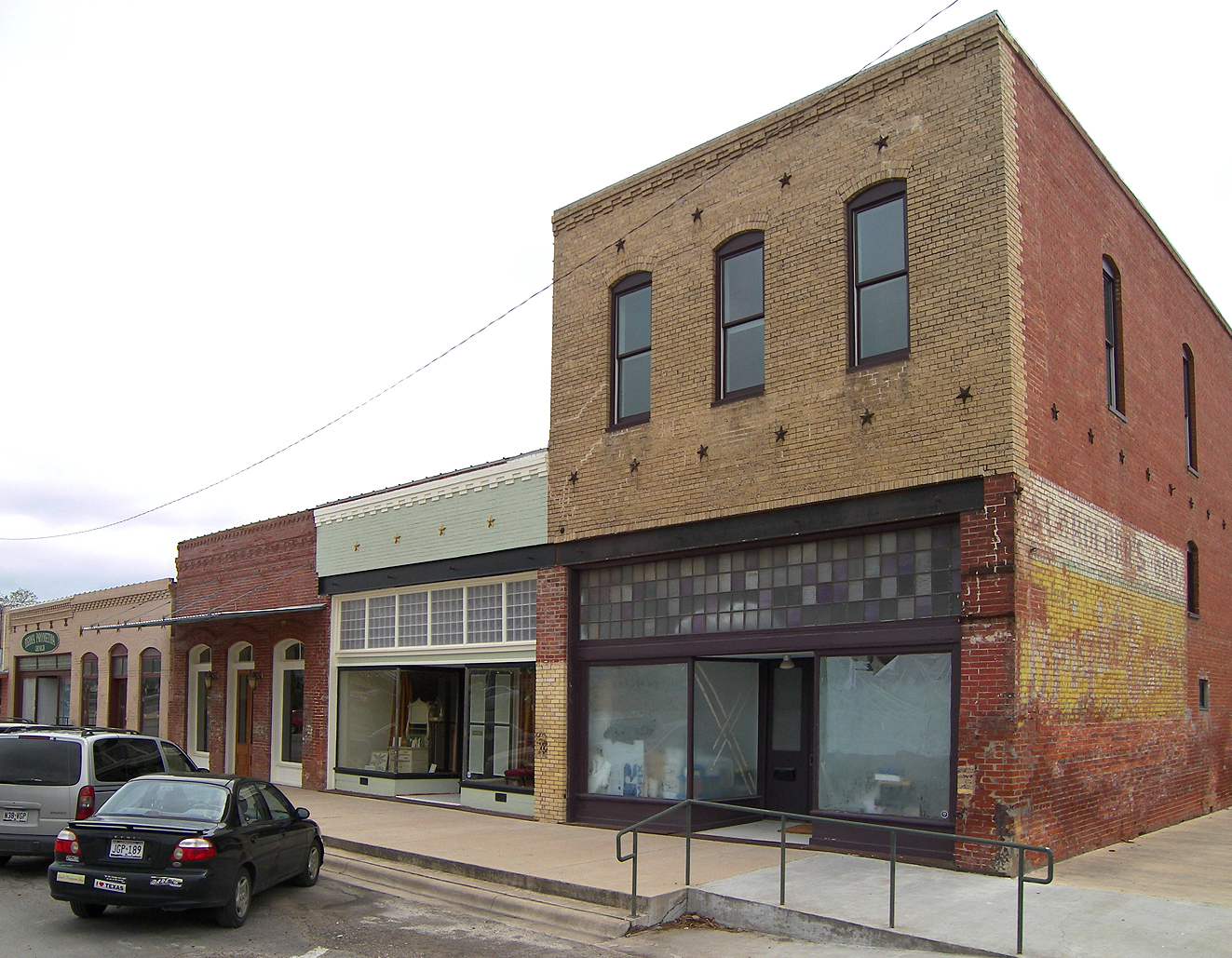 The Elgin Commercial Historic District in Elgin, Texas, United States. The area was listed on the National Register of Historic Places on February 16, 1996. These buildings along Central Avenue are some of the oldest buildings in the district.